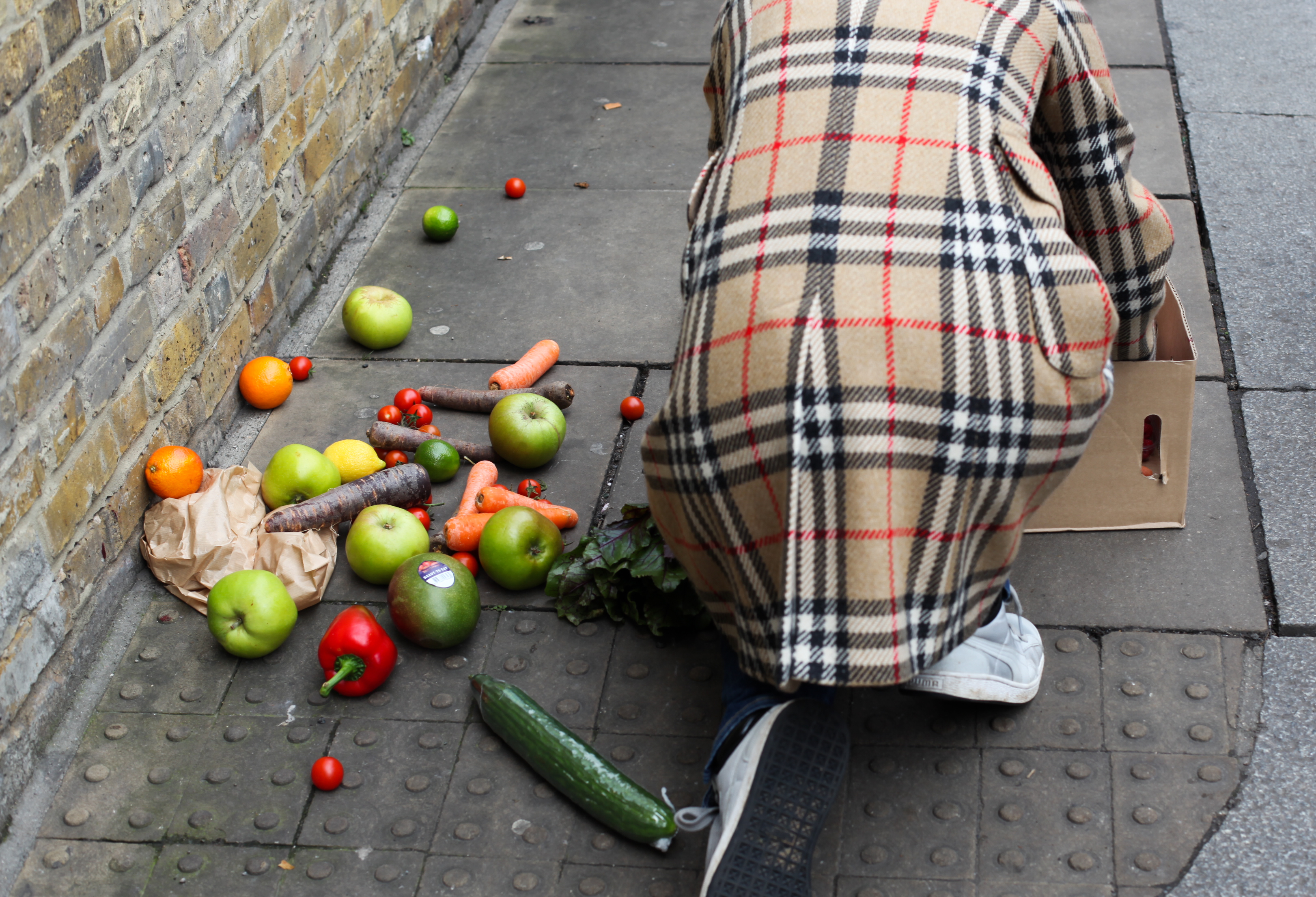 Borough Market, Saturday morning. This woman's box of fruits and vegetables fell off her bicycle onto the pavement. I was walking by carrying Lucas and shot this from the hip.